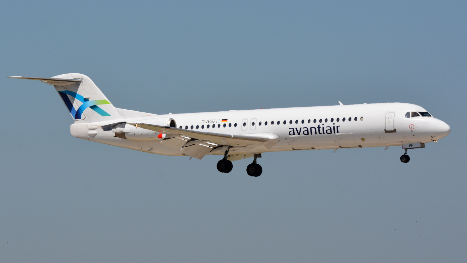 Paris-Orly Airport